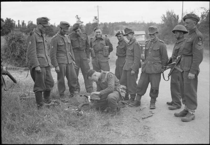 The British Army in the Normandy Campaign 1944 German prisoners being searched by soldiers of 1 Rifle Brigade near Tilly-sur-Seulles, 13 June 1944.